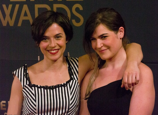 Catherine De Lean and Anne Emond at the 2012 Genie Awards